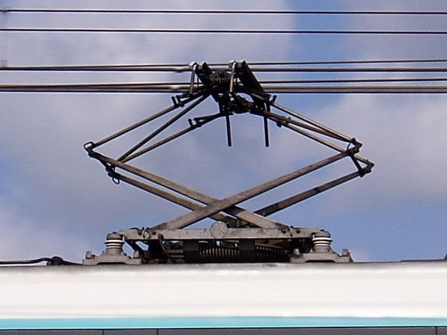 Pantograph "PT-4823A-M" of Odakyu Electric Railway EMU Type 20000.